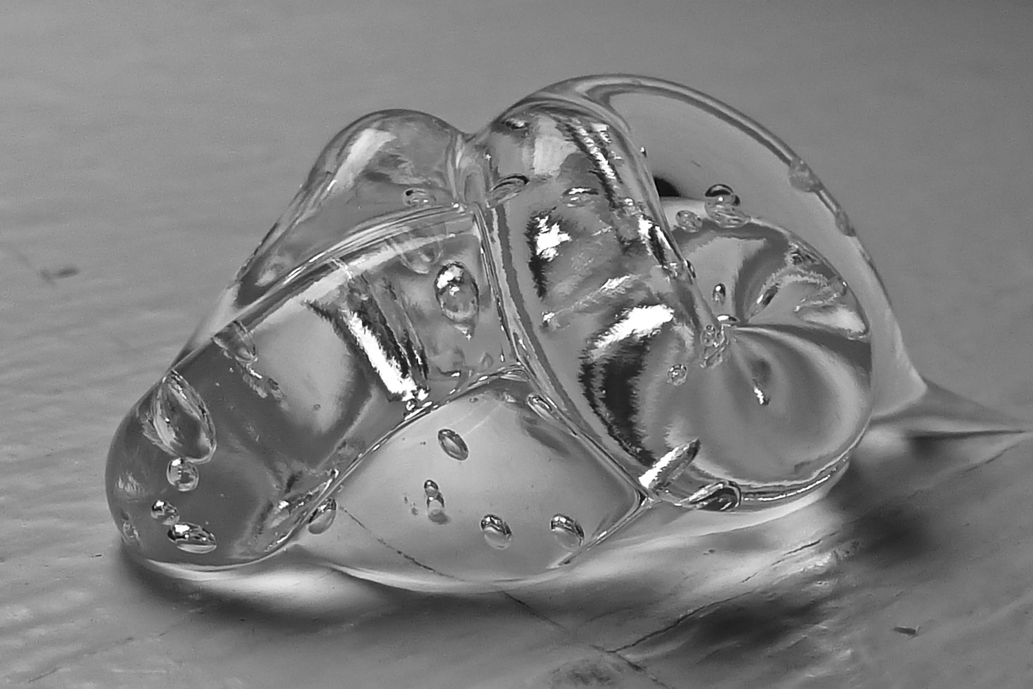 An amount of hair gel on a flat surface.